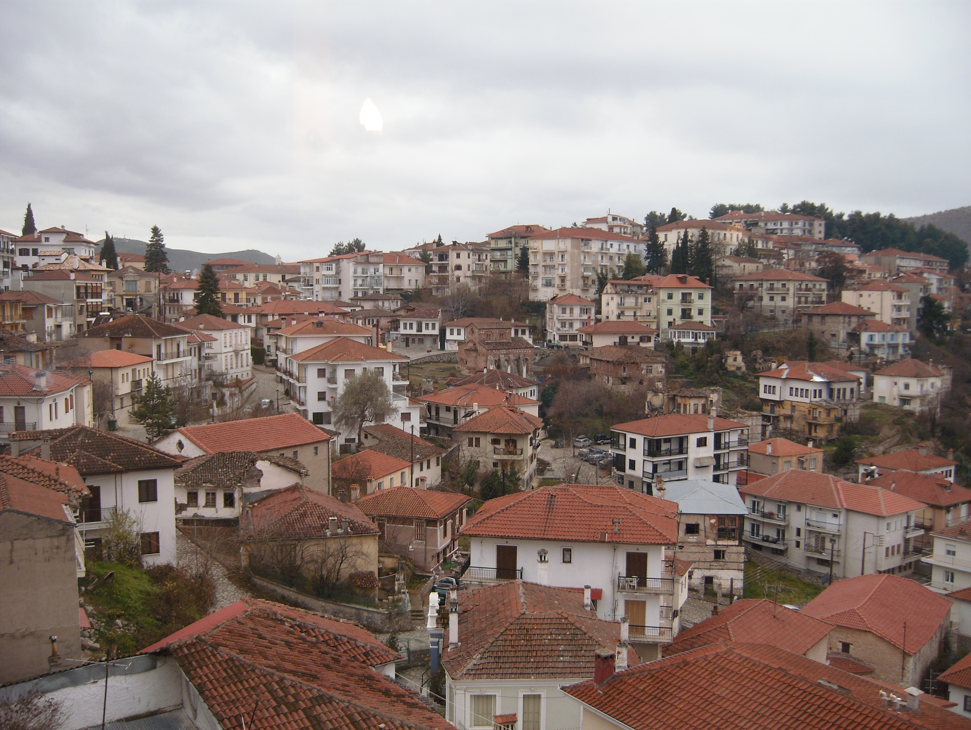 Views of Kostur / Kastoria